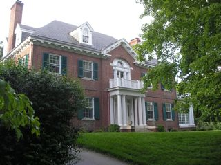 312 Overhill, Baltimore MD/ 1929 O.E. Adams